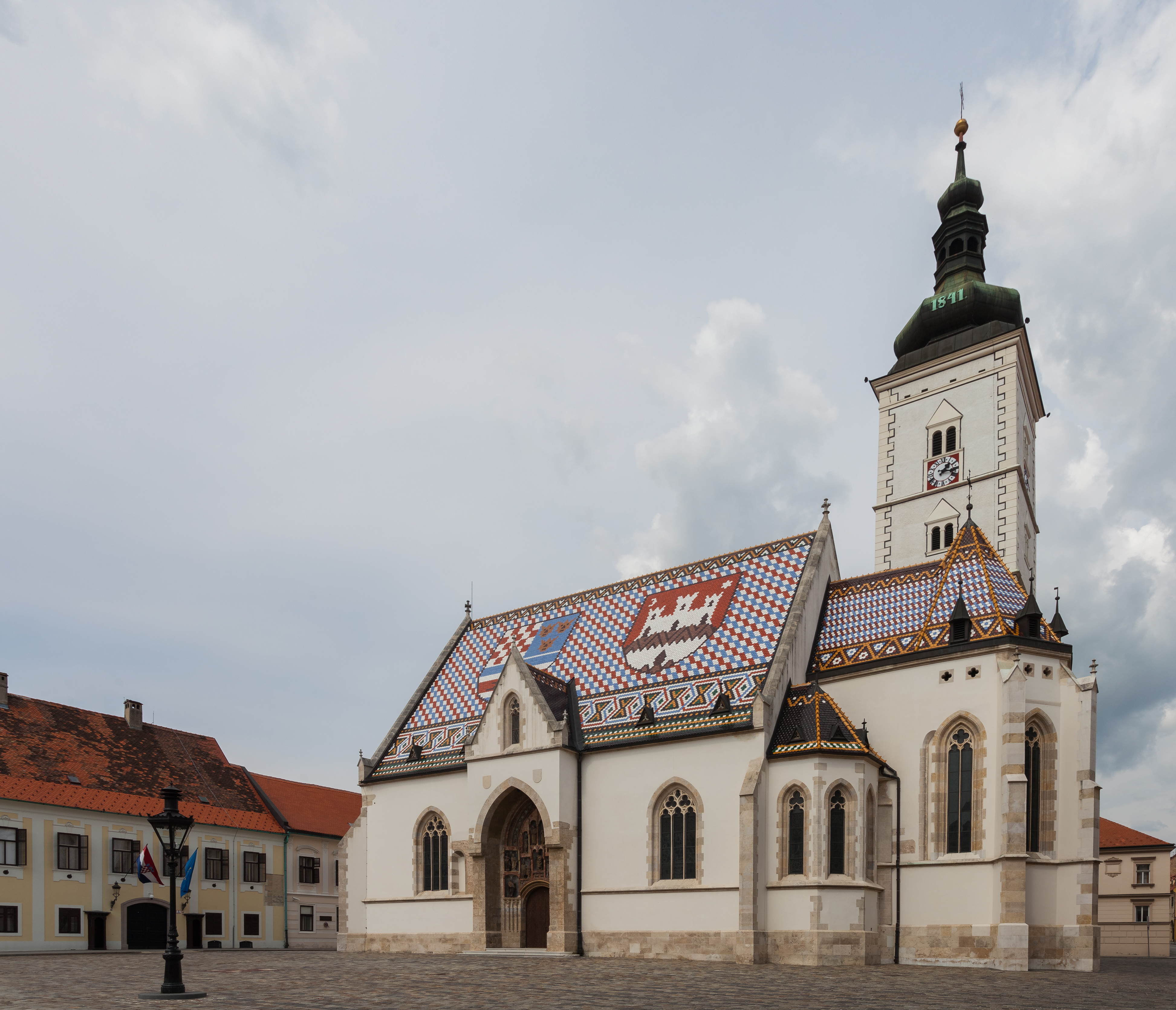 St. Mark's Church, Zagreb, Croatia